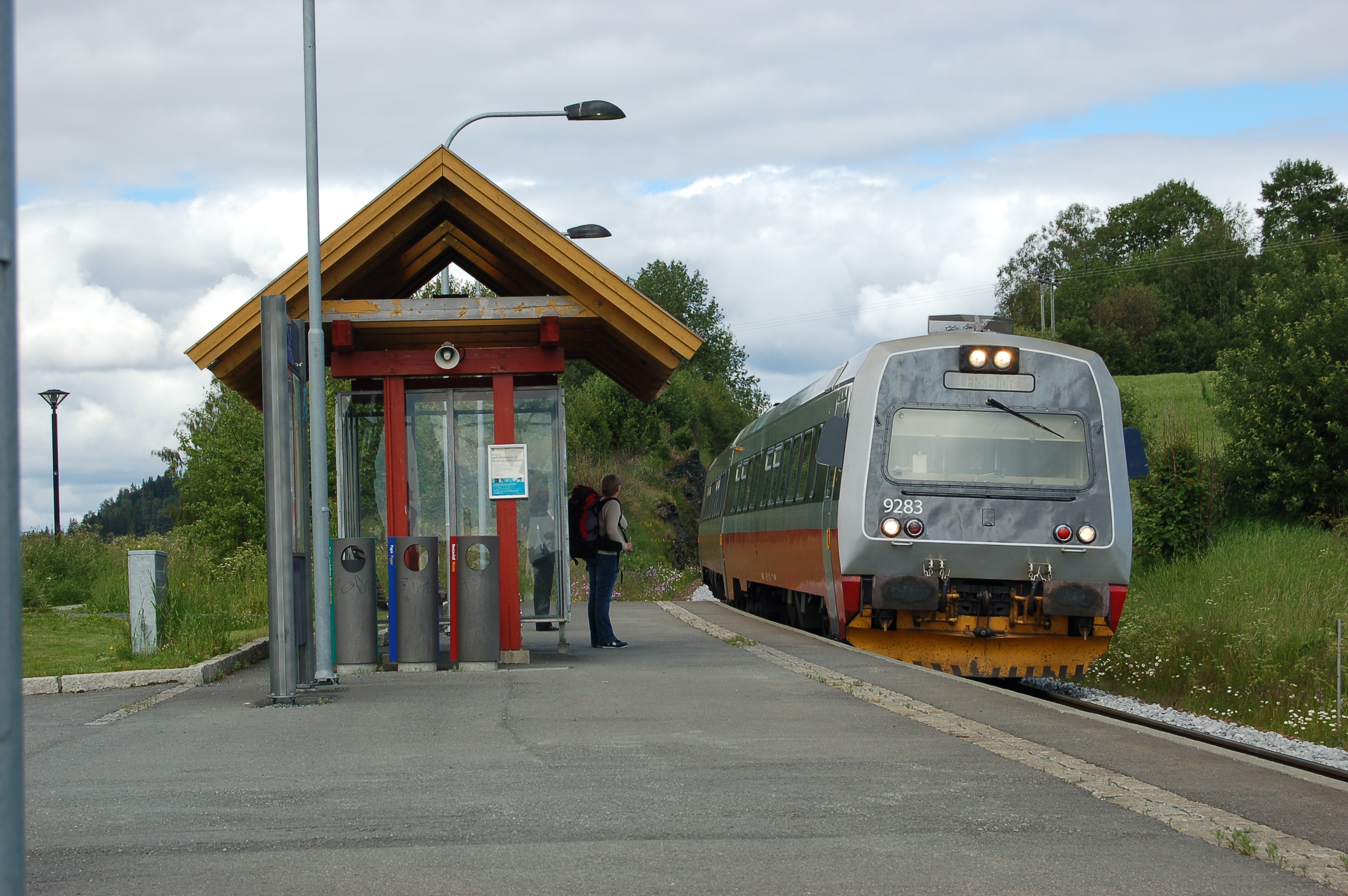 HiNT/Røstad Station on Nordlandsbanen, in Levanger, Norway. Norges Statsbaner type 92 diesel-electric multiple unit commuter train.